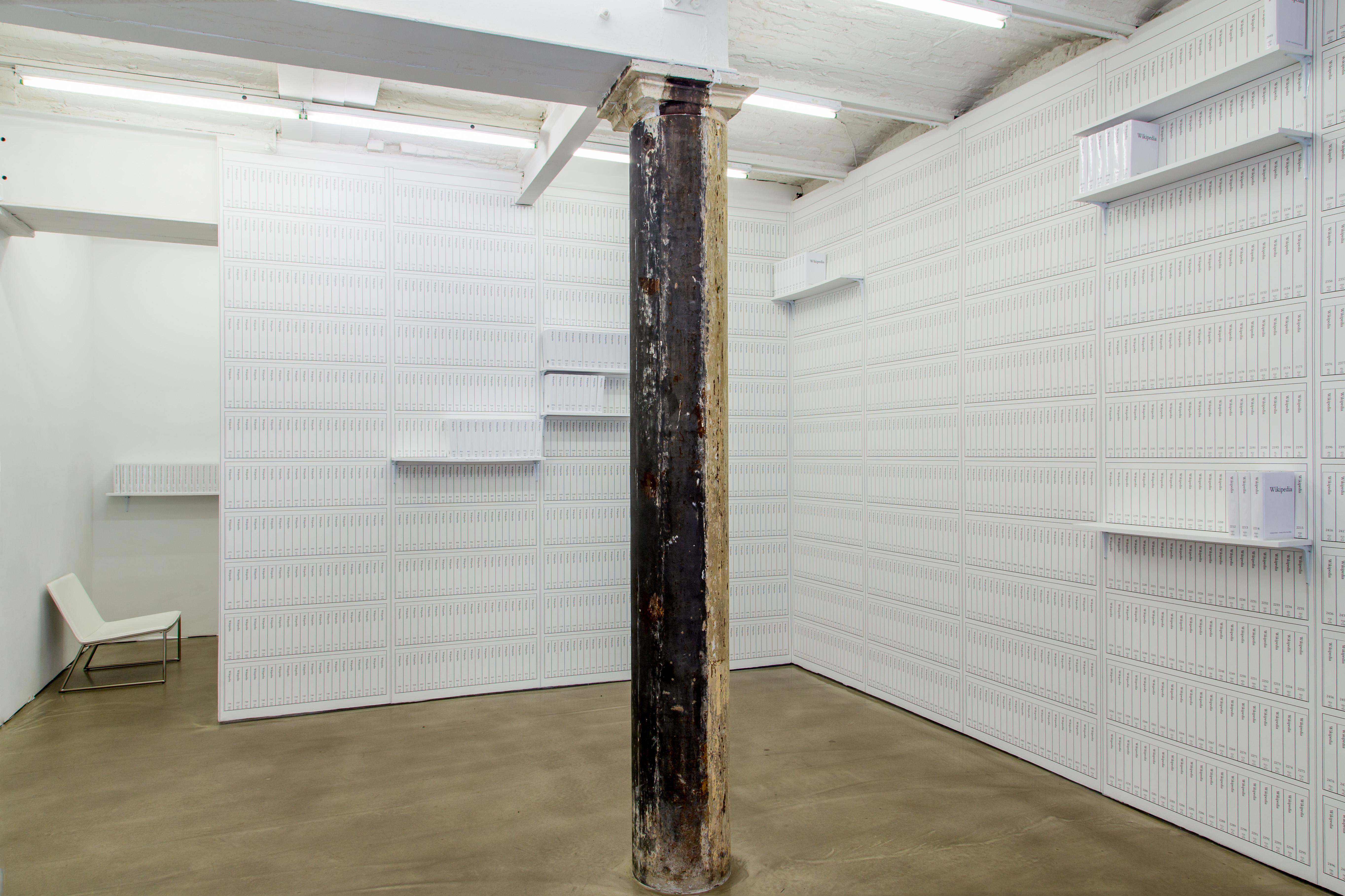 Installation view of From Aaaaa! to ZZZap!, works from Print Wikipedia, by Michael Mandiberg at Denny Gallery.